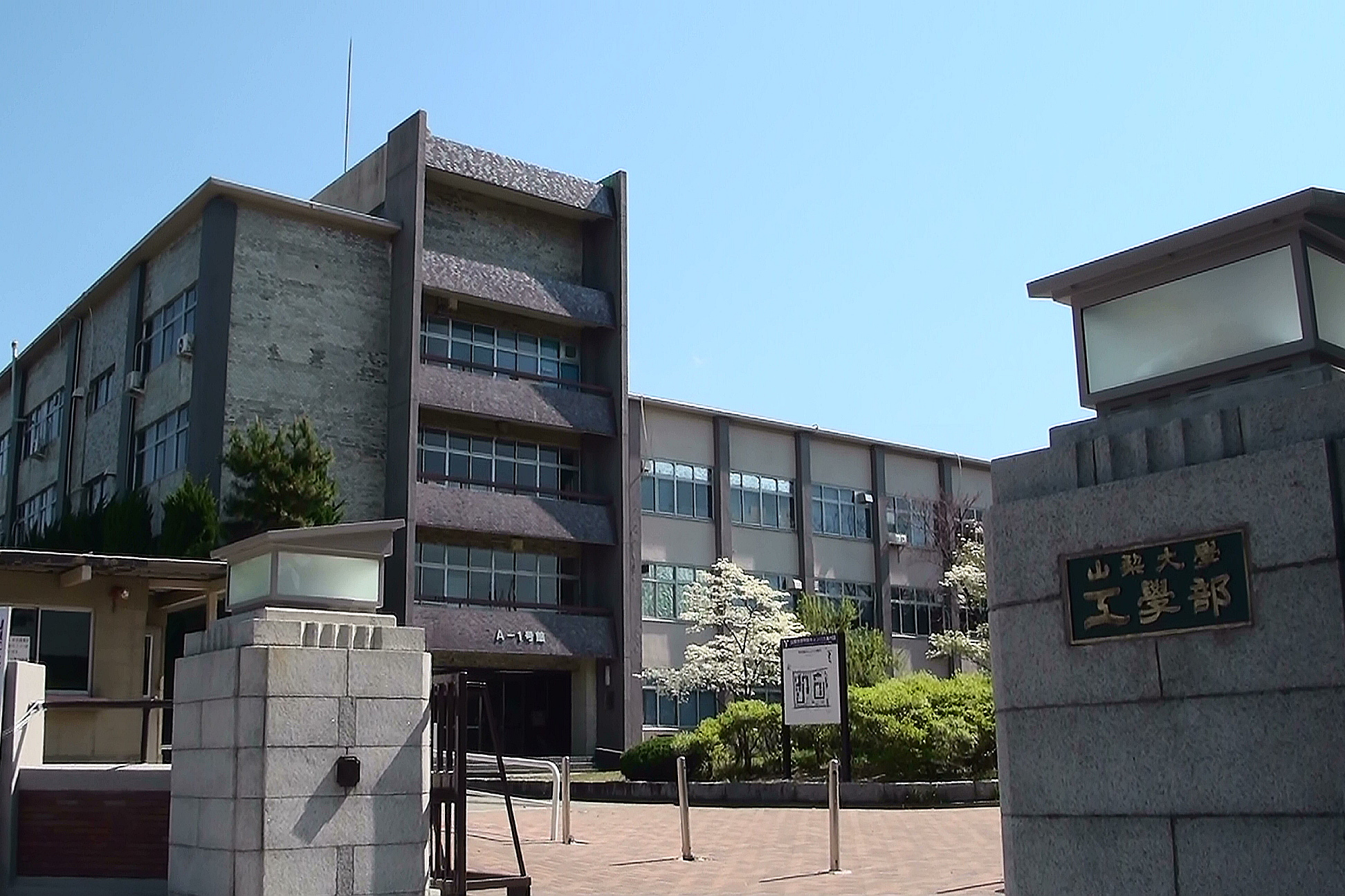 University of Yamanashi Kofu Campus Faculty of Engineering